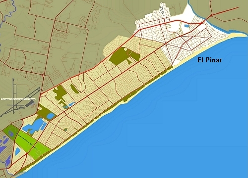 Location of El Pinar in Ciuded de la Costa of Canelones Department, Uruguay.